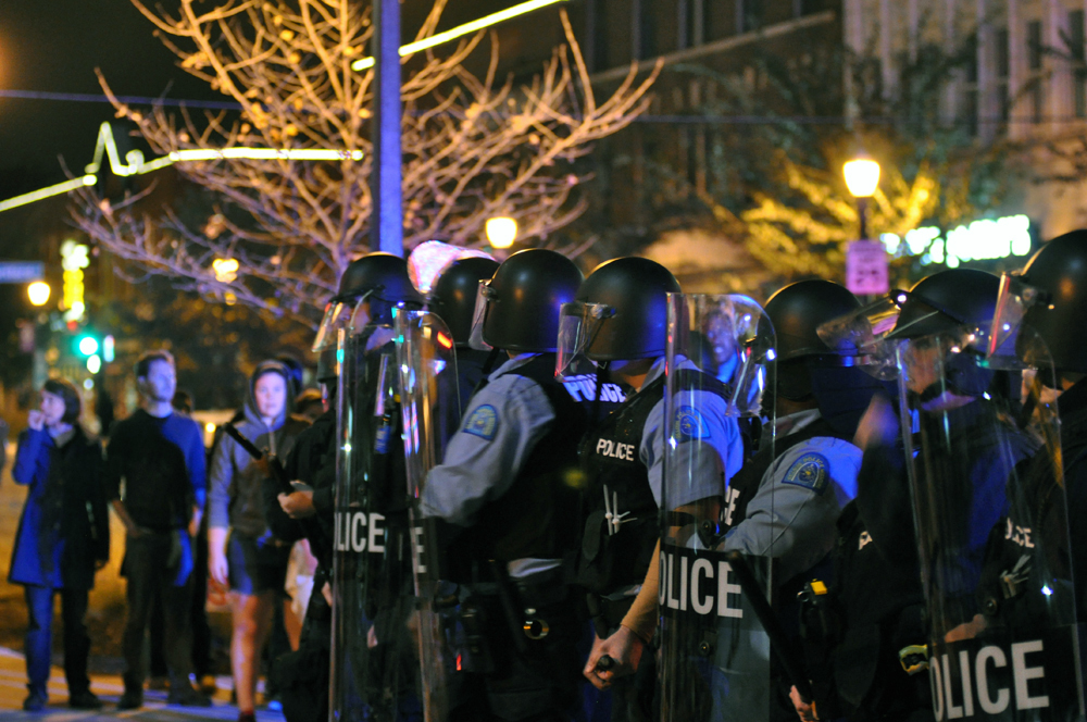 Police in riot gear.